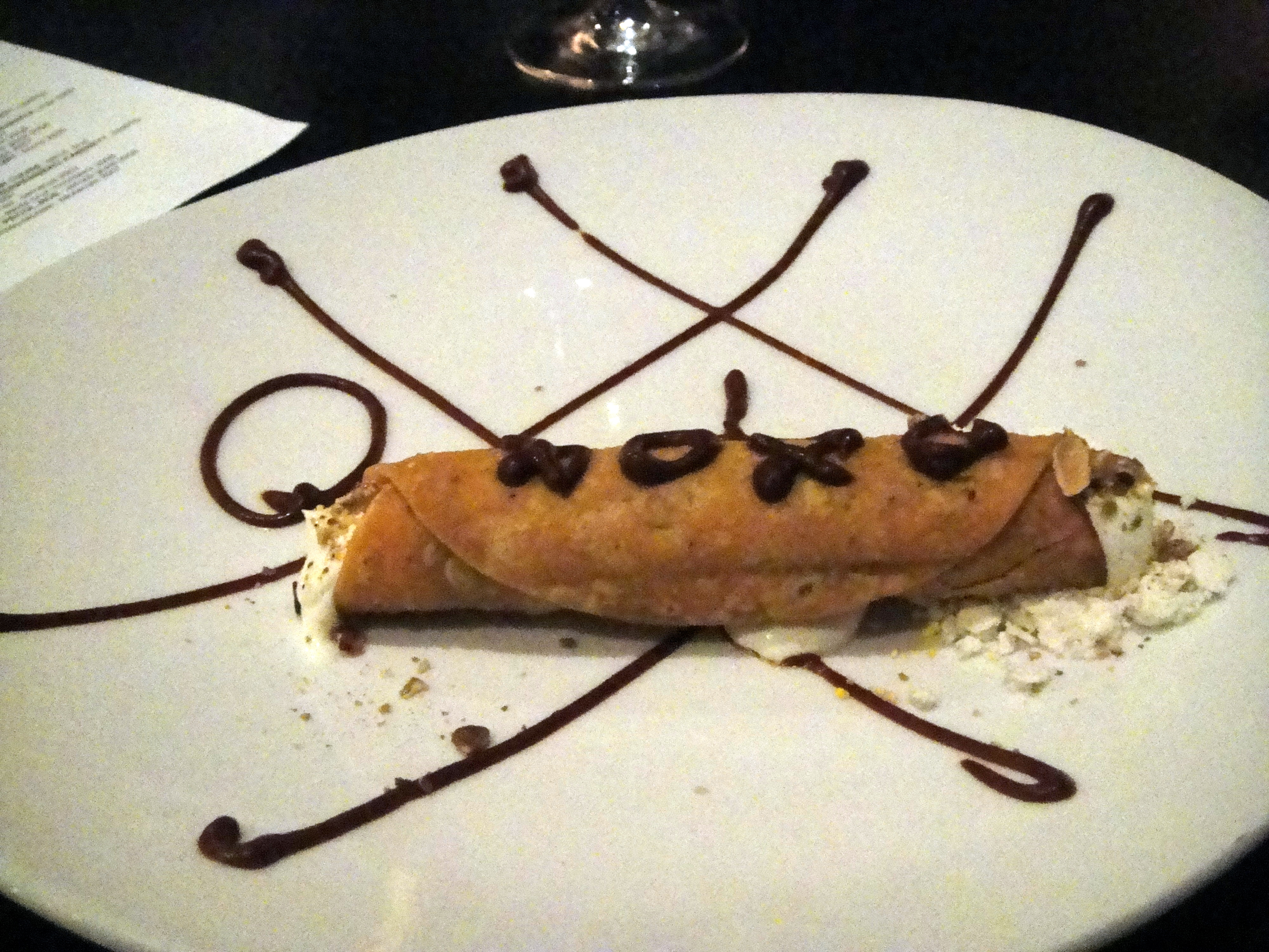 Not desert - Braised duck in a corn tortilla with sour cream and mole sauce and a jalapeno powder